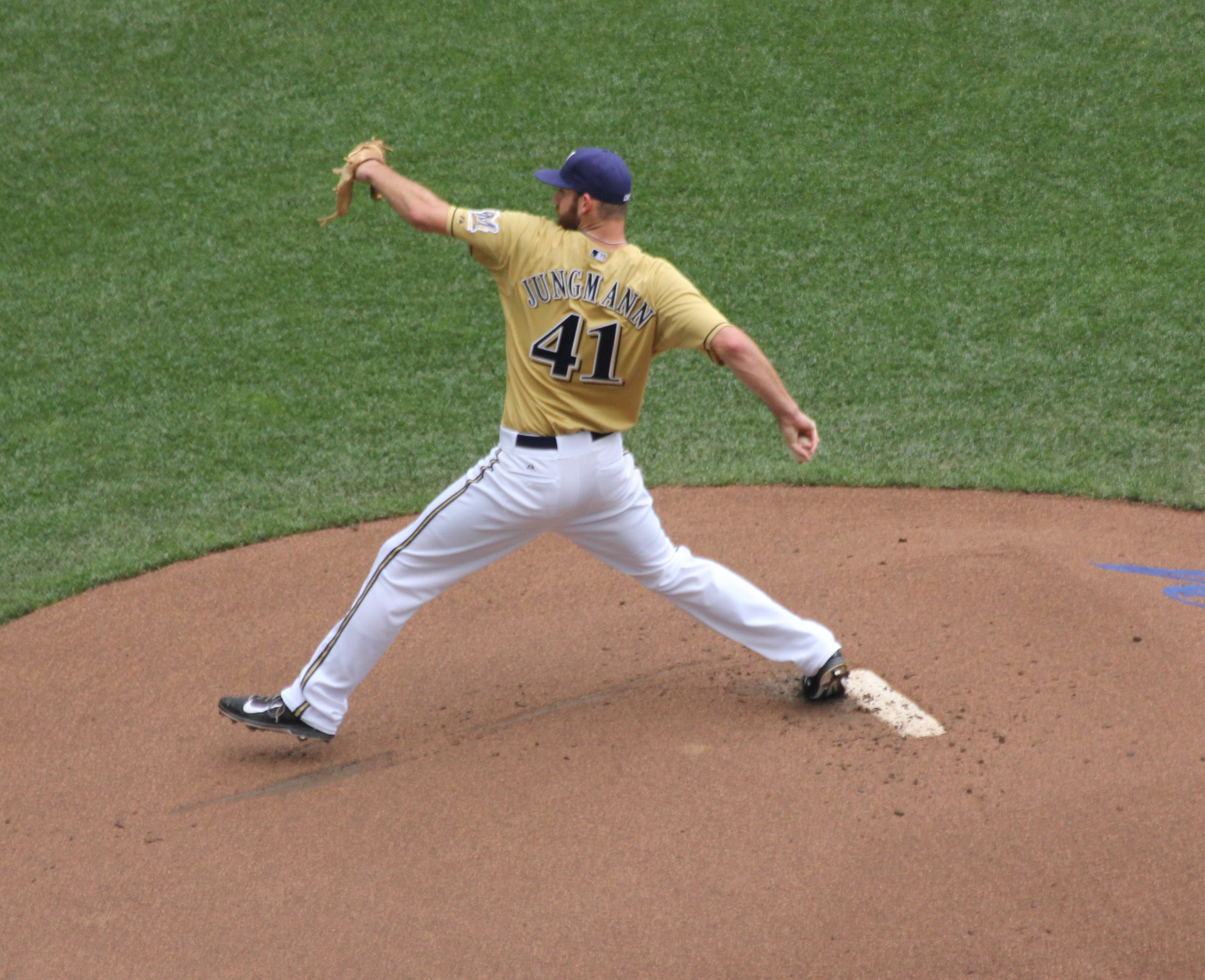 Milwaukee Brewers pitcher Taylor Jungmann warming up before his second career major league start.